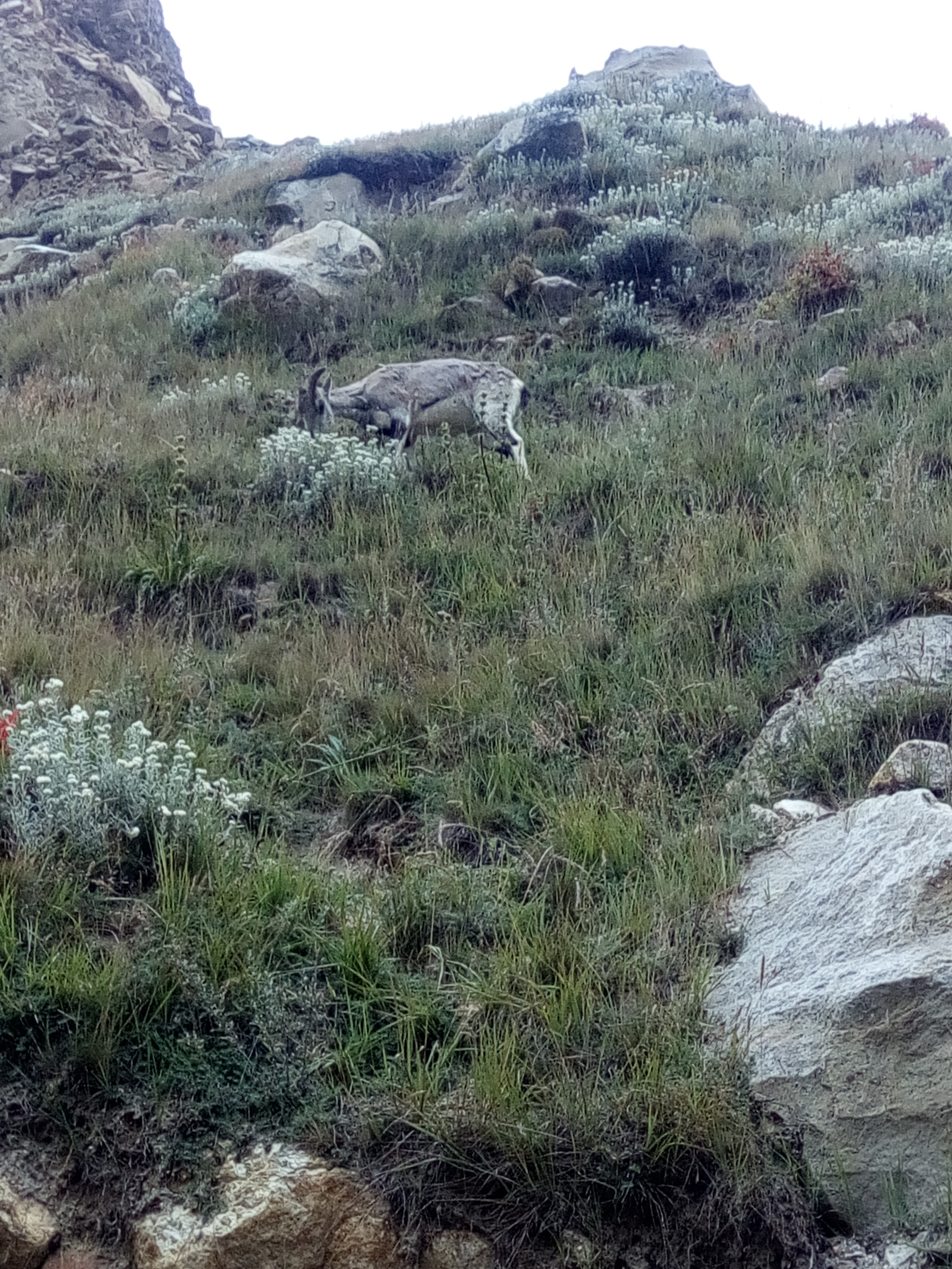 Blue sheep or bharal is a goat species at high altitude himalayas. Photo taken from bhojwasa -gomukh